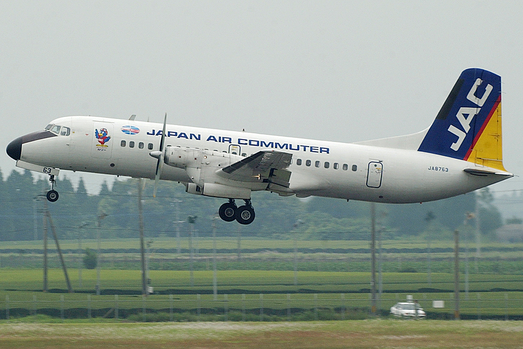 Another of my old charges. My big book of aeroplanes tells me that this aircraft is now in a museum in Thailand. JA8763 YS-11A-500 of Japan Air Commuter at Kagoshima on May 23, 2003.